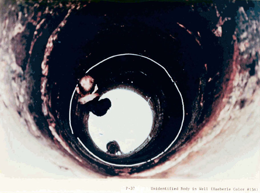 Unidentified body in well. My Lai, Vietnam. March 16, 1968.